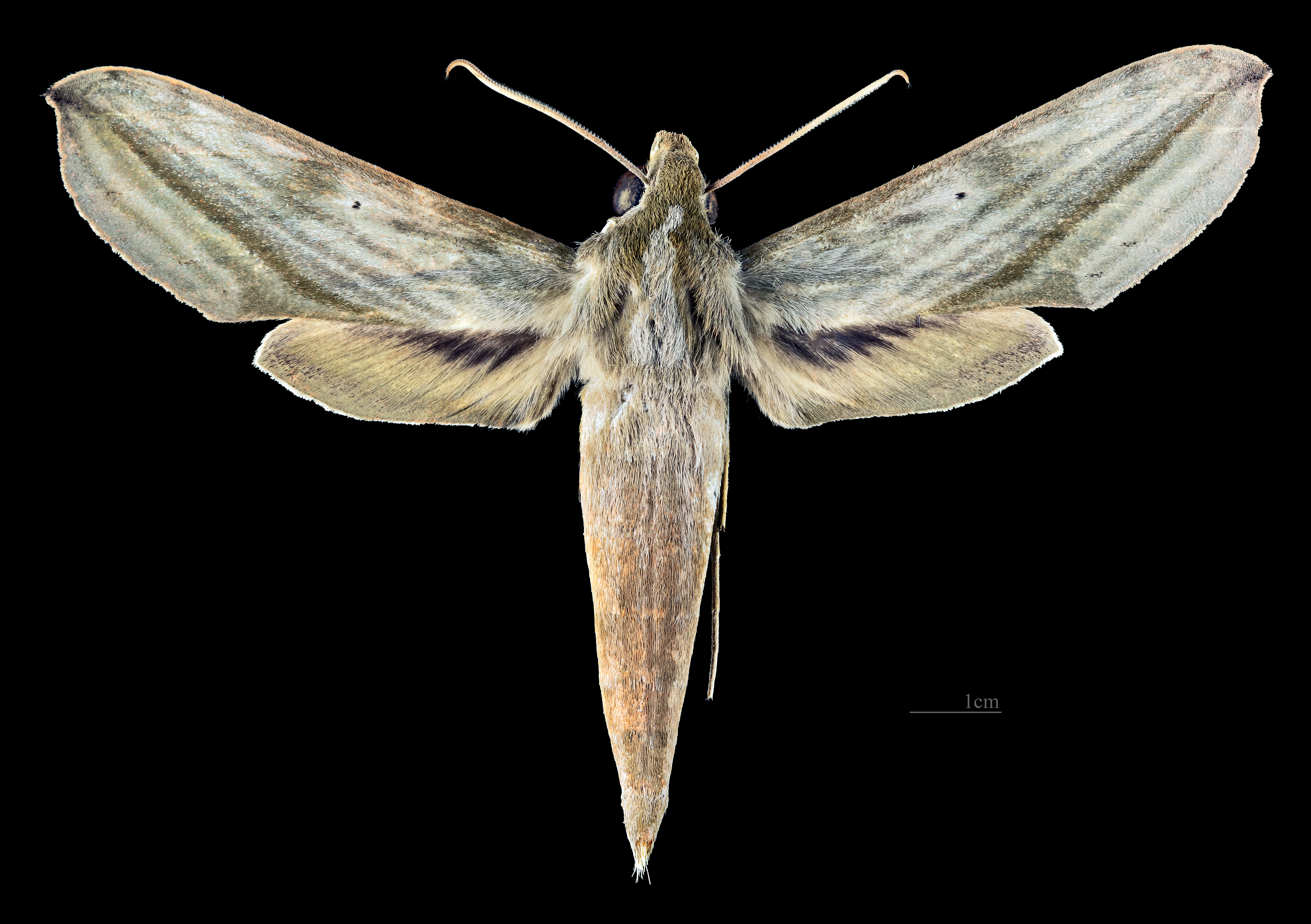 Xylophanes hydrata - Dorsal side Collection of the Mathematician Laurent Schwartz